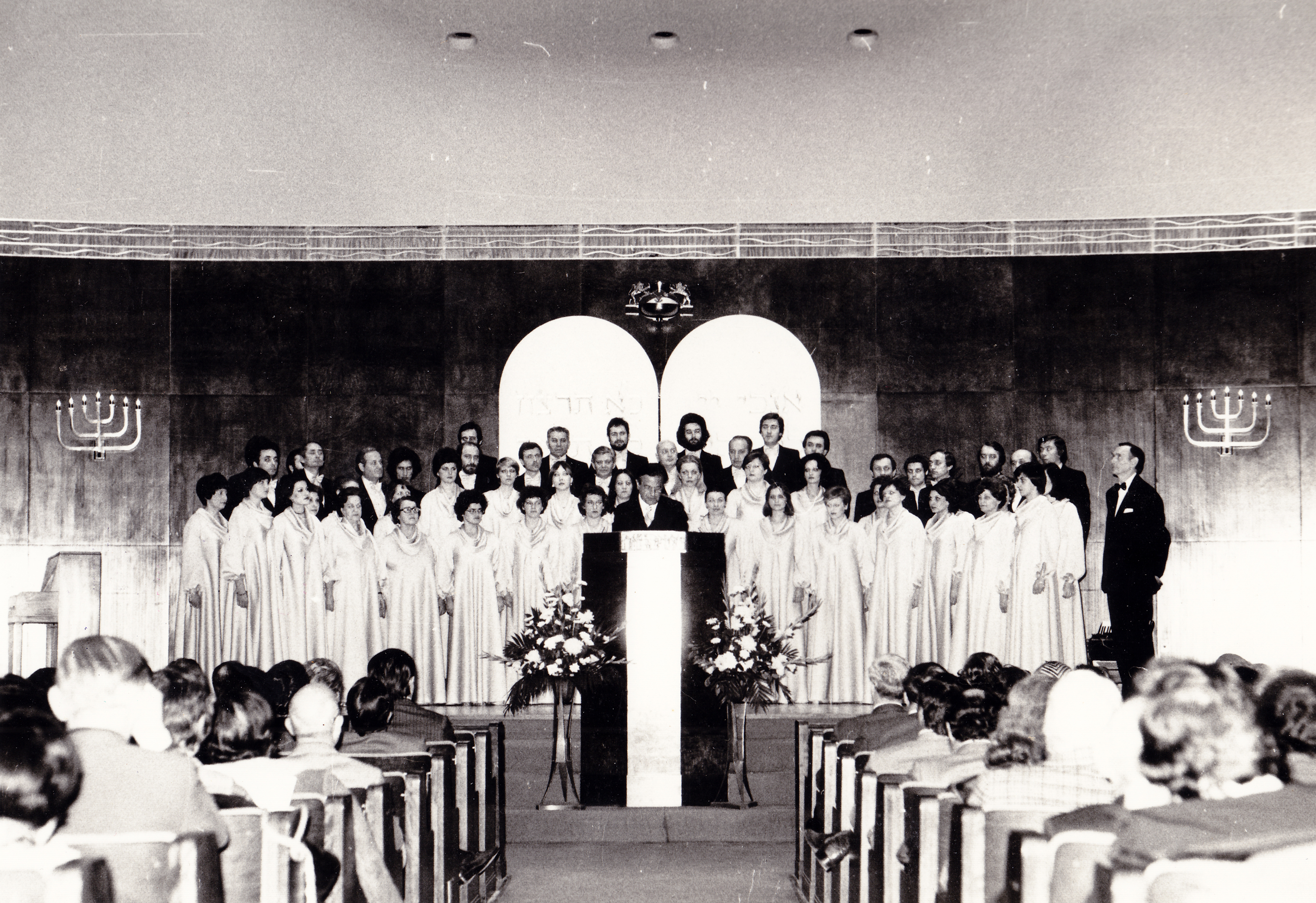 Sinagoga and Choir Braca Baruh